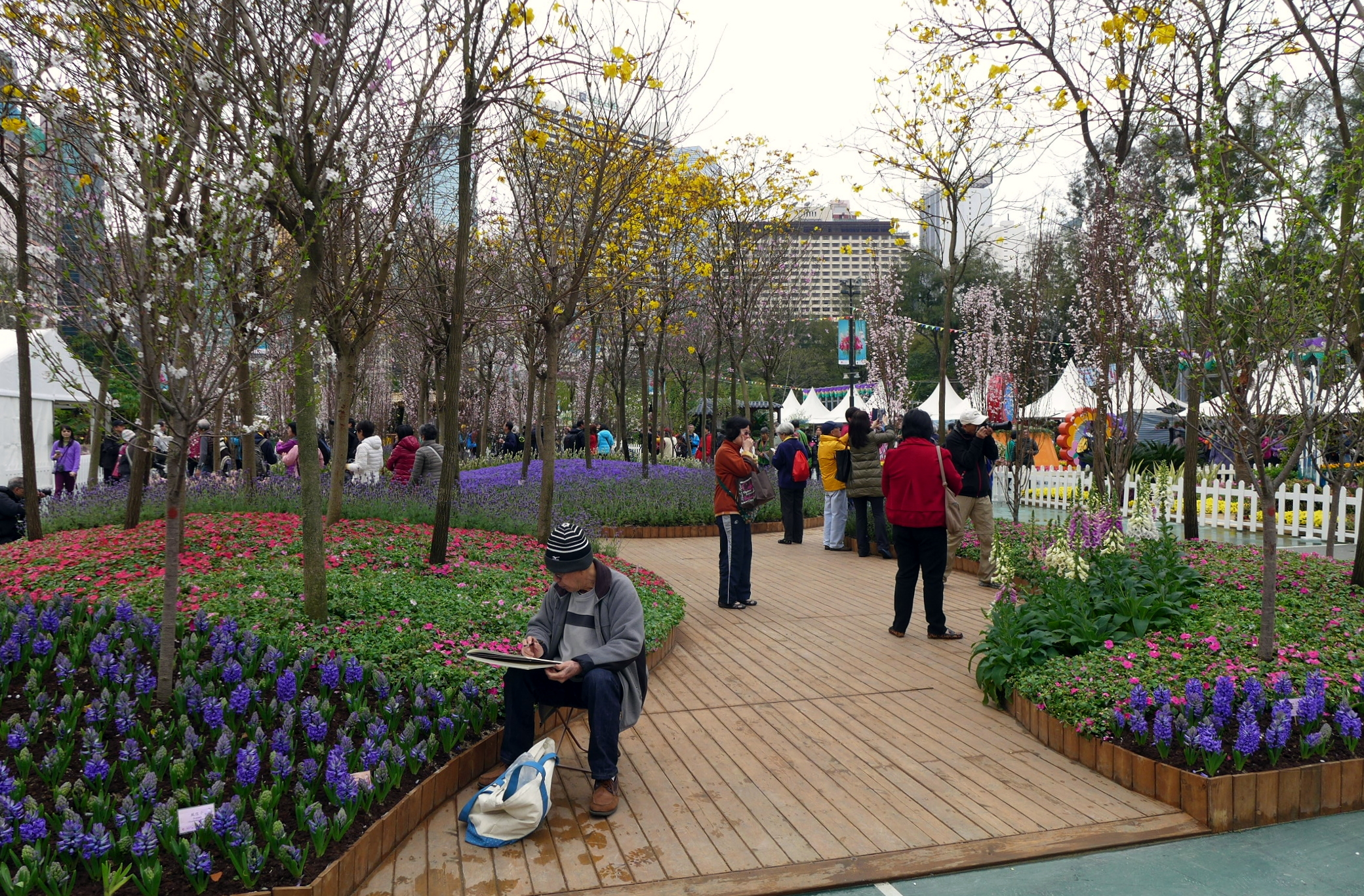 Hong Kong Flower Show 2016